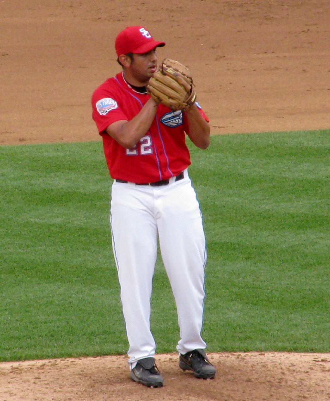 Zack Segovia pitching for the Syracuse Chiefs against the Pawtucket Red Sox, 7 September 2009.